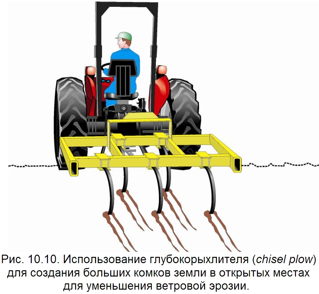 Figure 10.10. Chisel plow used for creating large clods in open areas to reduce wind erosion